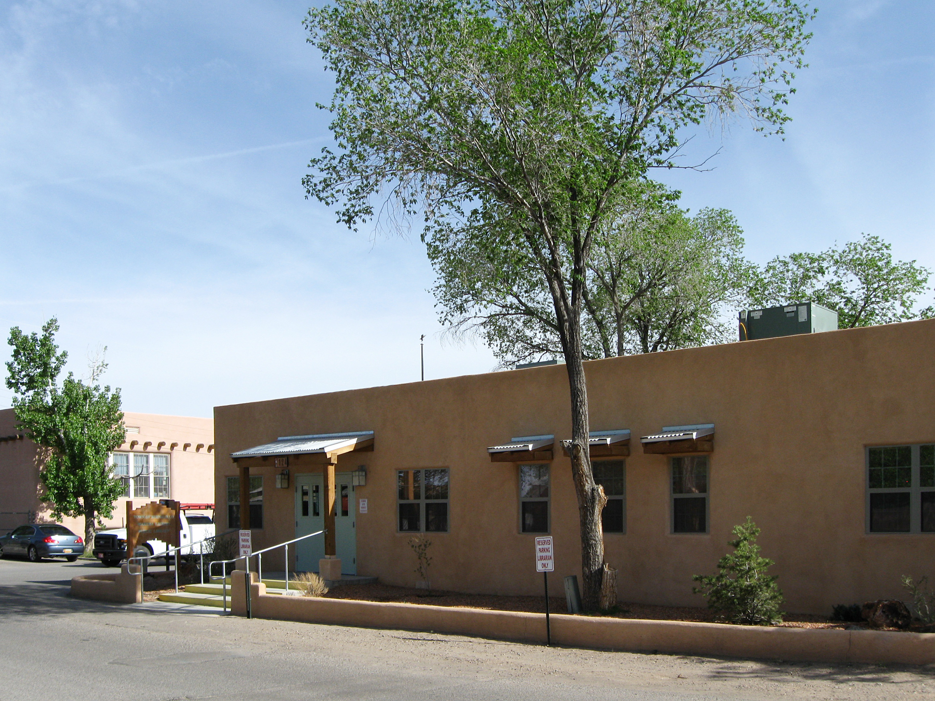 Martha Liebert Public Library, located at 124 Calle Malinche in Bernalillo, New Mexico. The Bernalillo Roosevelt school library is in the background.